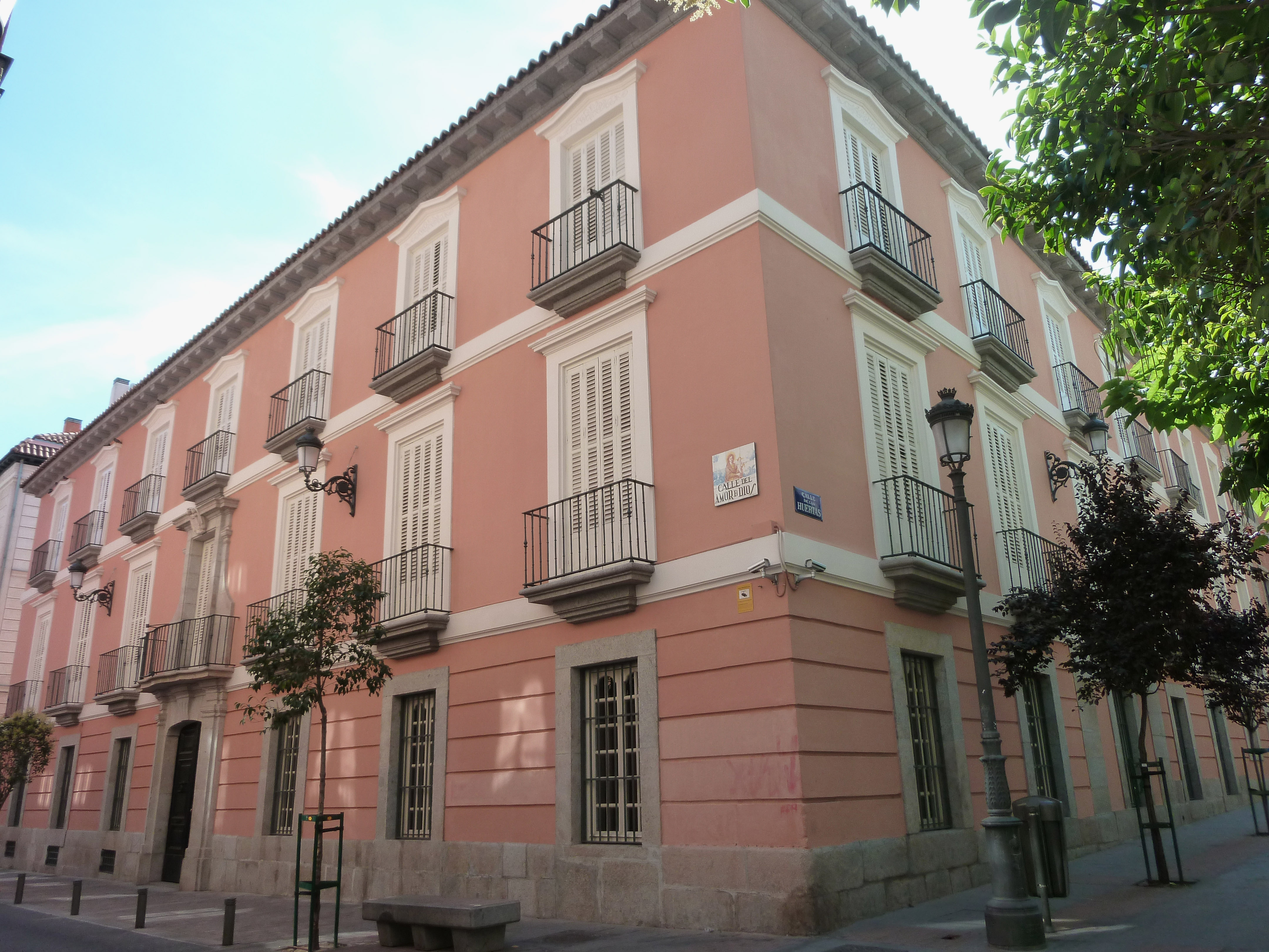 View of the Palace of the Marquis of Molins in Madrid (Spain) from the north-east angle.